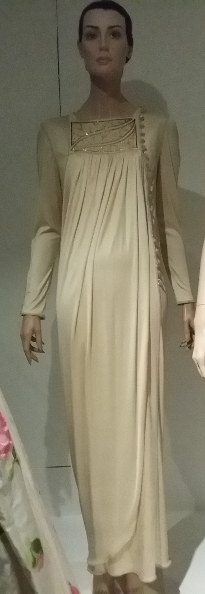 Draped cream silk jersey dress with embroidered and beaded panel.